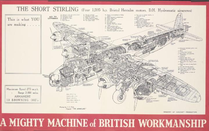 A Mighty Machine of British Workmanship - the Short Stirling whole: the image occupies the majority, set against a white background. The title is separate and positioned across the bottom edge, in white. The subtitle and text are integrated and occupy the majority, in black. All held within a red border. image: a drawing of a Short Stirling aircraft, with cut-away sections to show the internal components. text: THE SHORT STIRLING (Four 1,595 h.p. Bristol Hercules, D.H. Hydromatic airscrews) [key to drawing] This is what YOU are making . . . . . [blank section] Maximum Speed 275 m.p.h. Maximum Range 3,000 miles. ARMAMENT 10 BROWNING .303's SPAN. - 99 ft. 1 in. LENGTH. - 87 ft. 3 in. HEIGHT. - 22 ft. 9 in. WING AREA. - 1,460 sq. ft. ASPECT RATIO. - 6.72. Drawing by J.H. Clark. Copyright 'THE AEROPLANE' MINISTRY OF AIRCRAFT PRODUCTION A MIGHTY MACHINE of BRITISH WORKMANSHIP PRINTED FOR H.M.S.O. BY JOHNSON, RIDDLE AND CO., LTD. LONDON, S.E.20. 51-3425